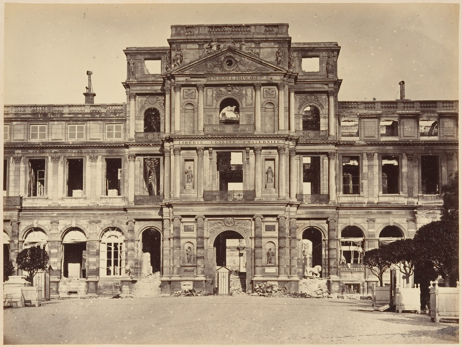 Les Ruines de Paris et de ses Environs 1870-1871: Cent Photographies: Premier Volume. Par A. Liébert, text par Alfred d'Aunay. Author: Alfred d'Aunay (French) Date: 1870–71 Medium: Albumen silver prints from glass negatives Dimensions: Images approx.: 19 x 25 cm (7 1/2 x 9 13/16 in.), or the reverse Mounts: 32.8 x 41.3 cm (12 15/16 x 16 1/4 in.), or the reverse Classification: Albums Credit Line: Joyce F. Menschel Photography Library Fund, 2007 Accession Number: 2007.454.1.1–.33